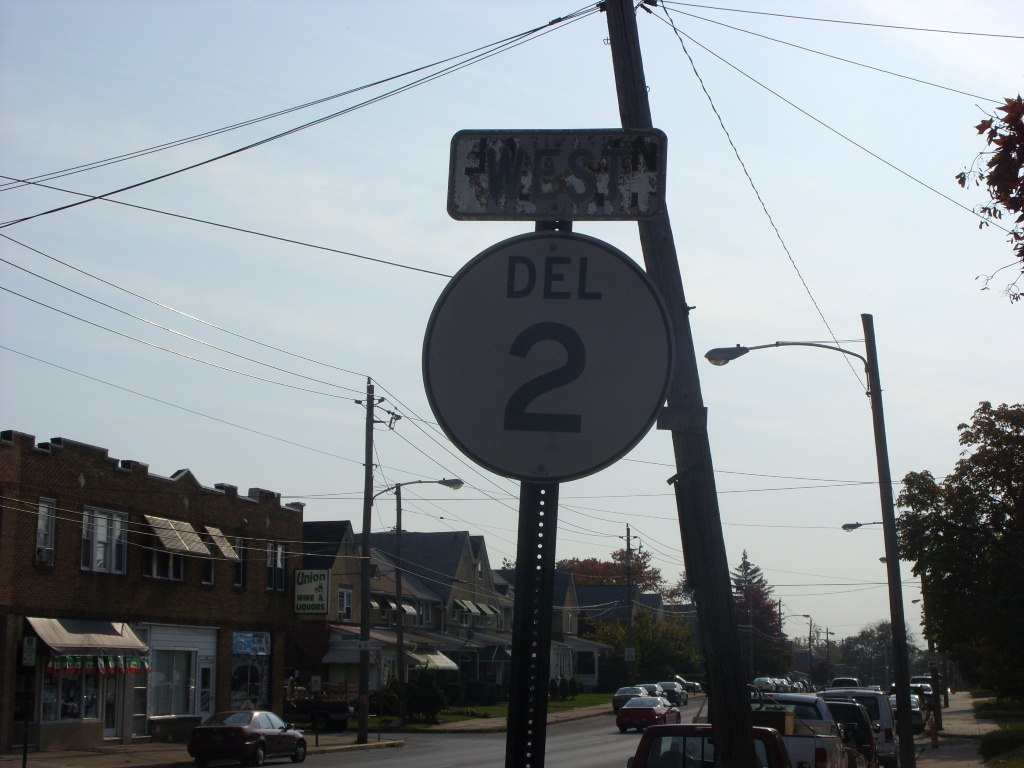 Delaware Route 2 cutout shield westbound past Delaware Route 48 in Wilmington